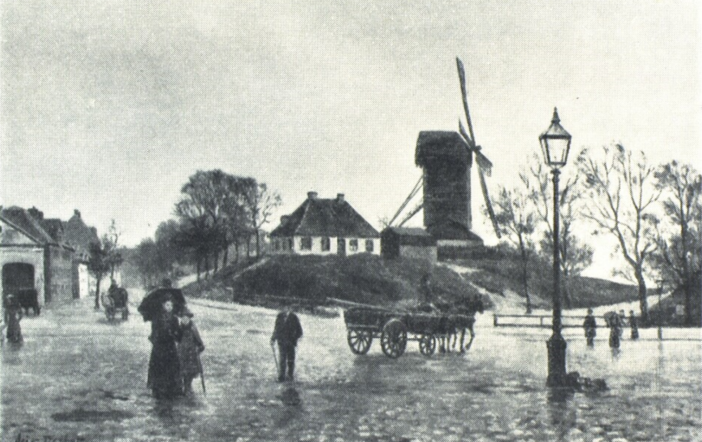 Halmtorvet med Lucie-møllen, Vejerboden og Philosofgangen mod Vartov